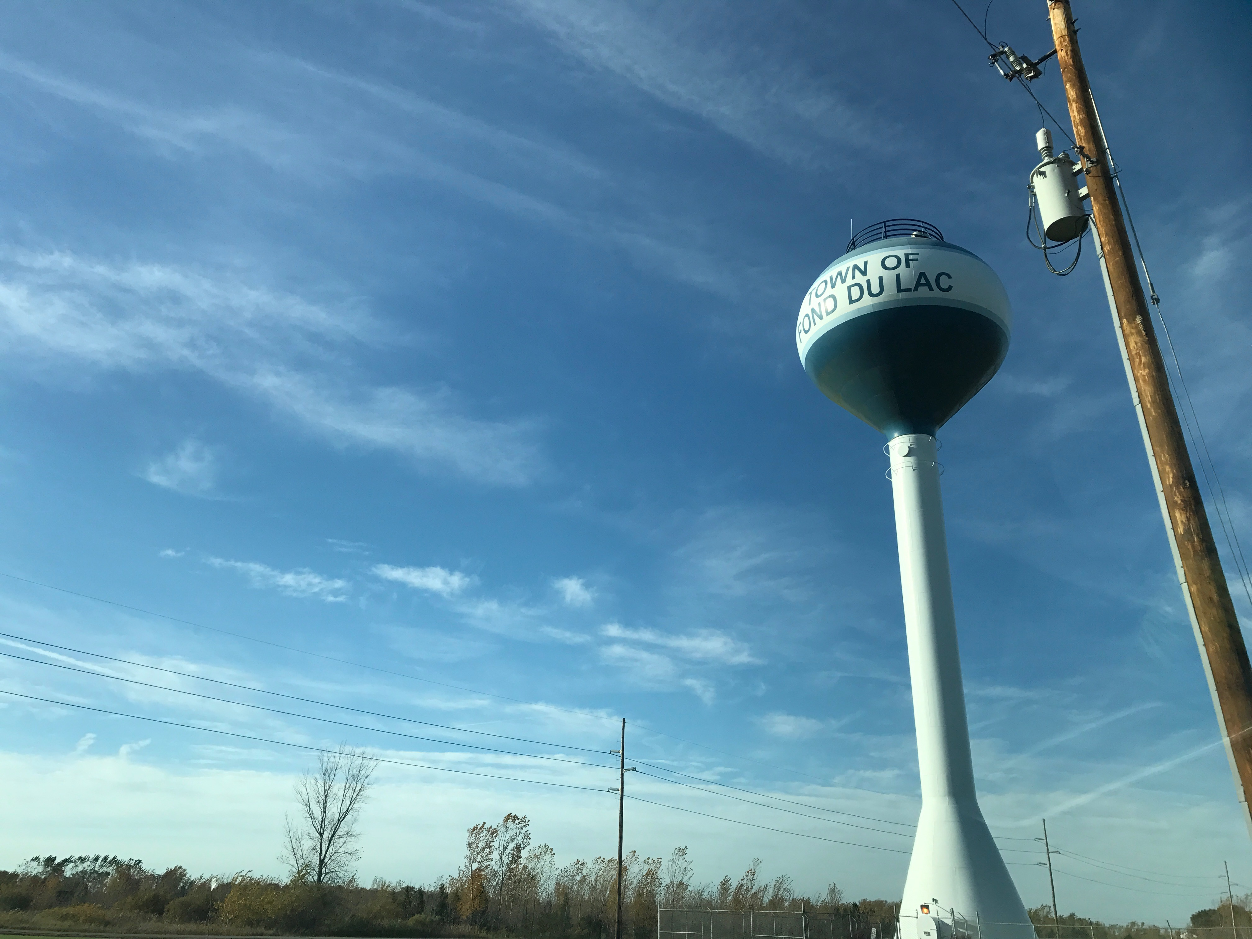 Water Tower with name on it